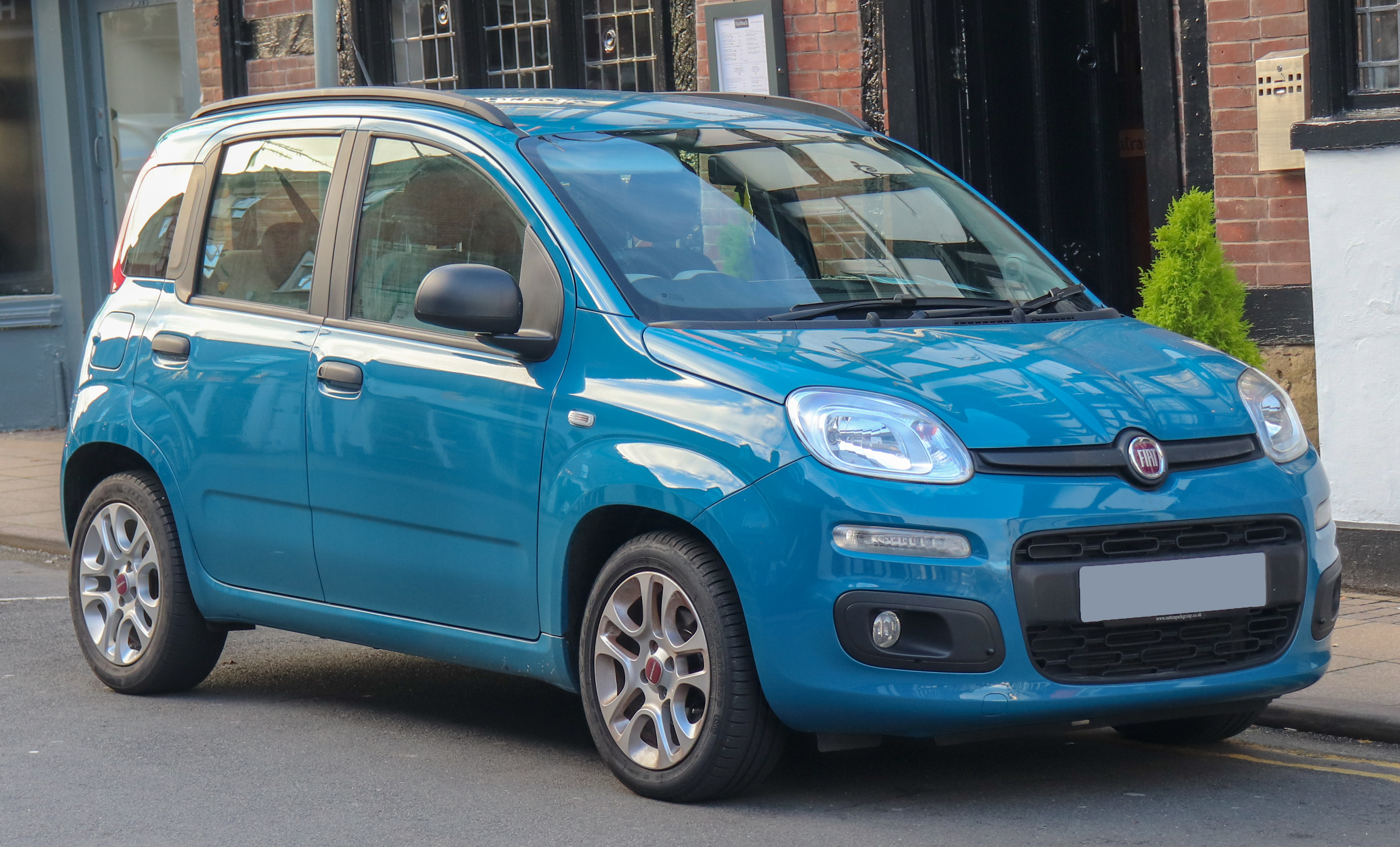 2012 Fiat Panda Easy 1.2 Front Taken in Warwick